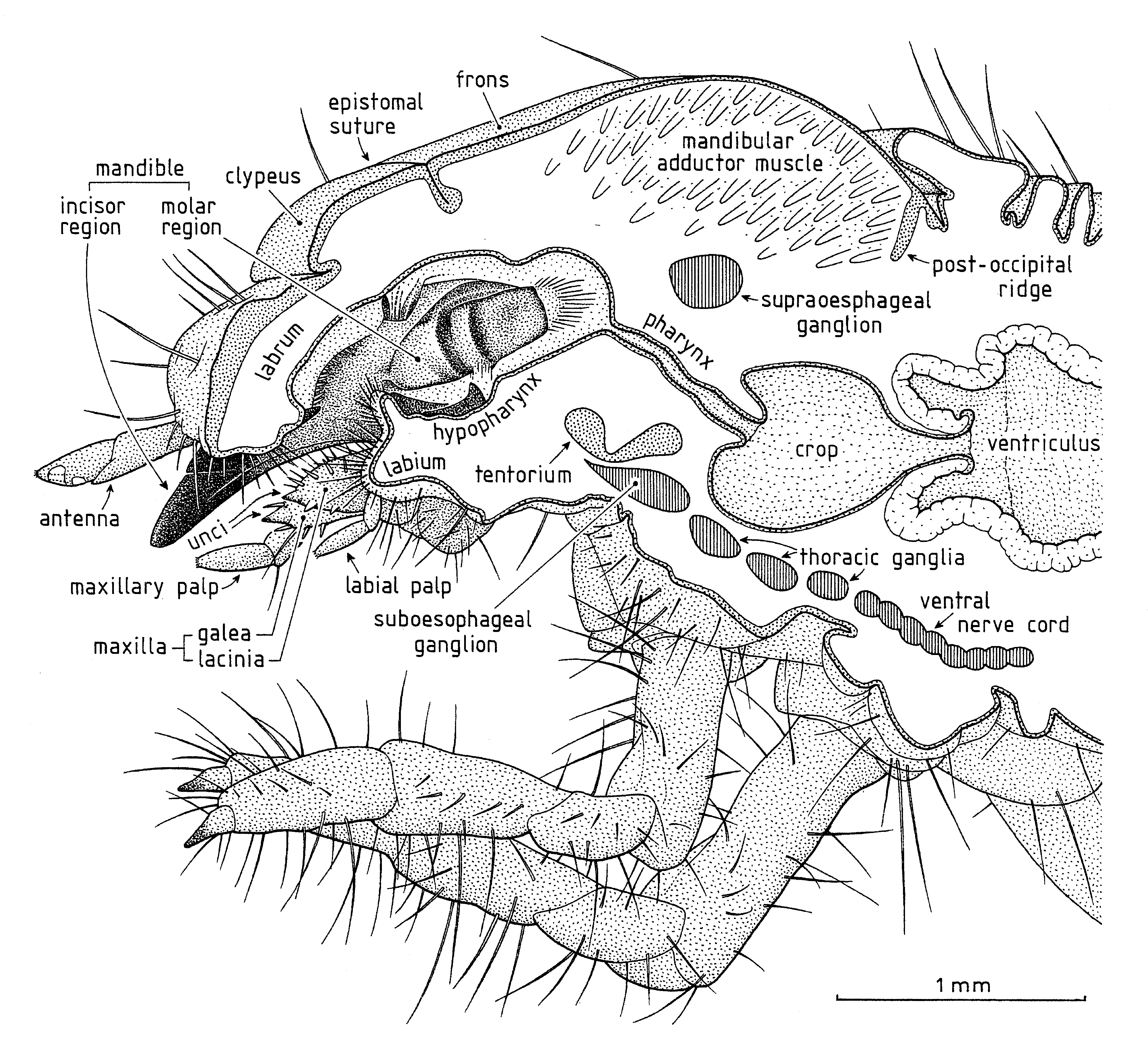 (Coleoptera: Scarabaeidae) Costelytra zealandica illustrated by Des Helmore showing the internal morphology.